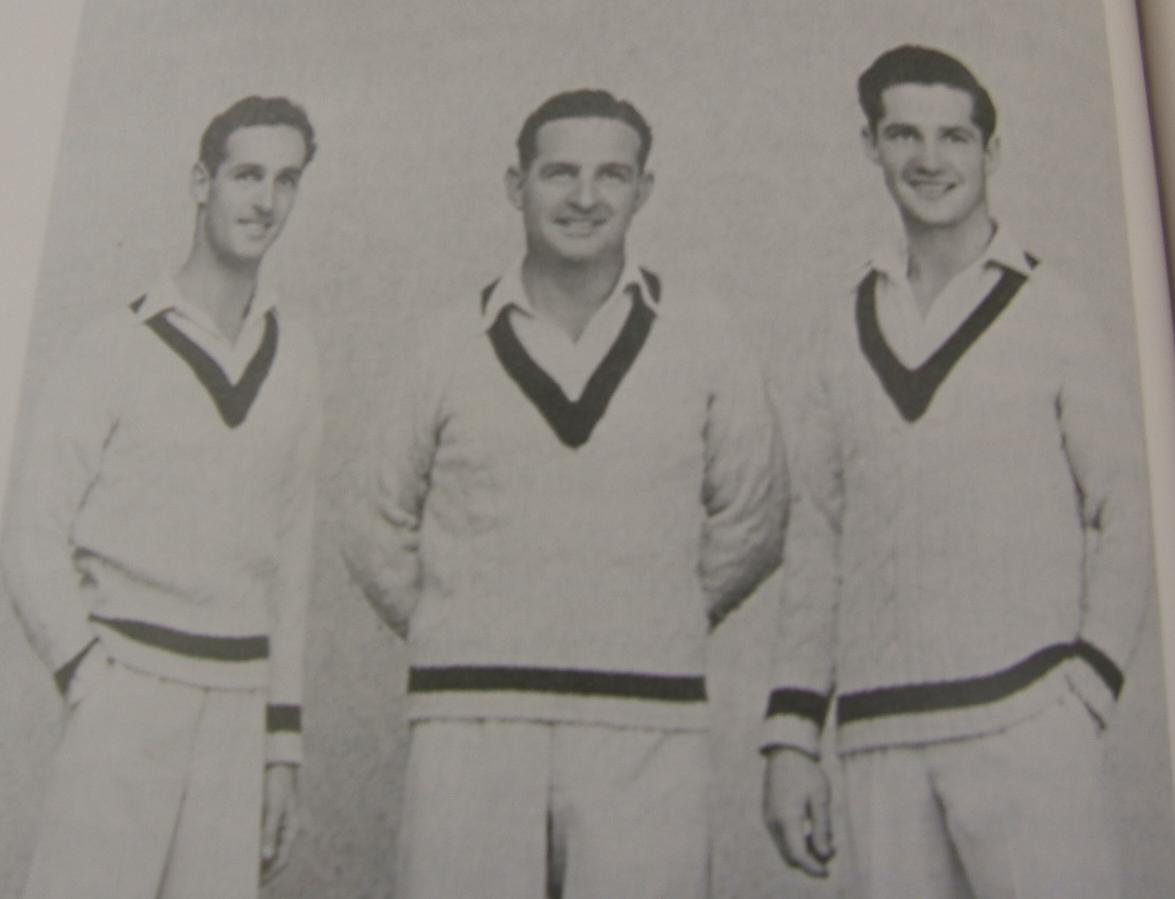 Ray, Merv and Neil Harvey, Victorian cricketing brothers